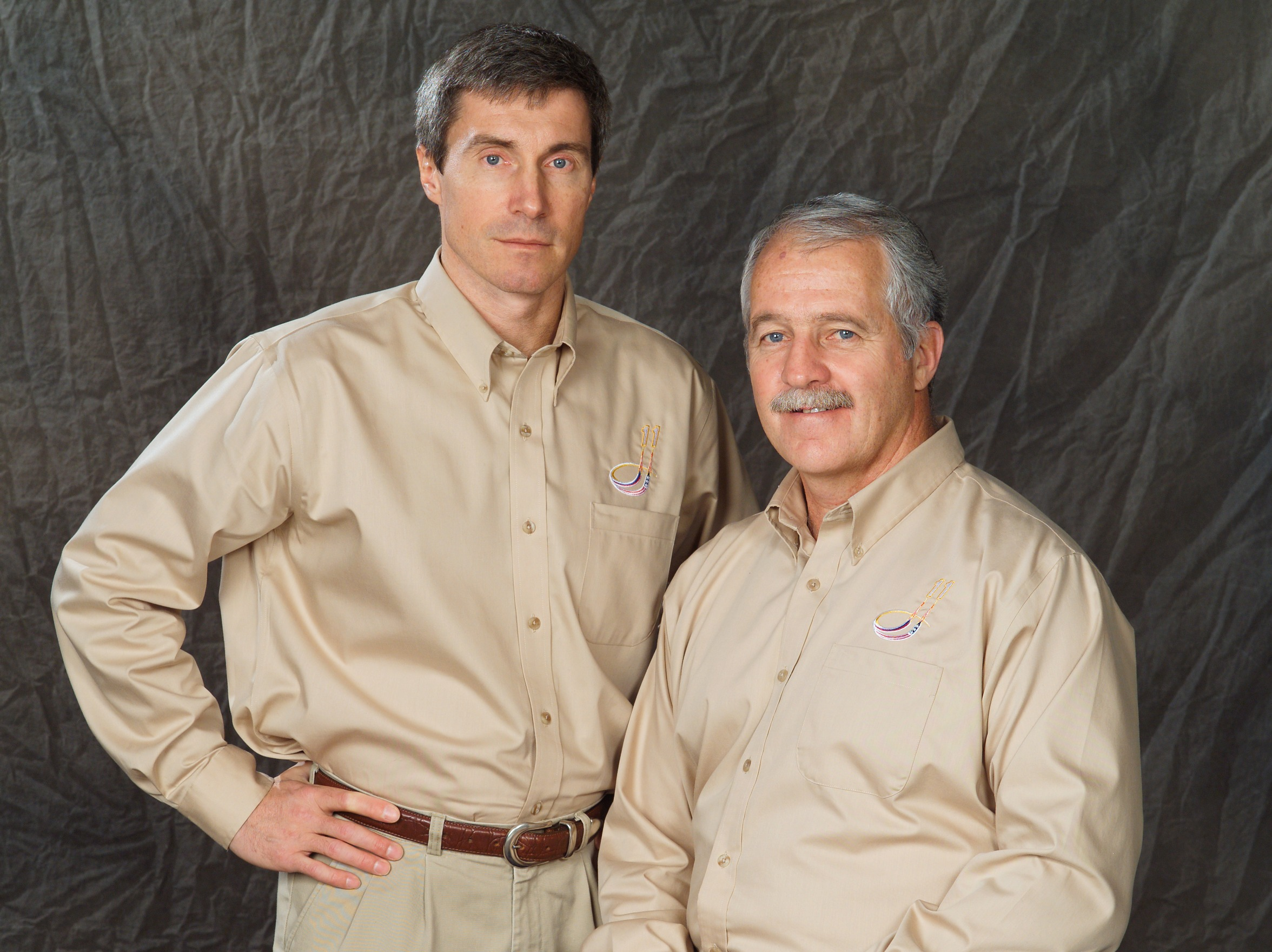 ISS Expedition 11 crew portrait